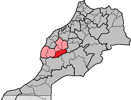 Location of the province Al Haouz within the region Marrakech-Tensift-Al Haouz, Morocco. In total, Morocco has 16 regions, subdivided into 62 provinces and 13 prefectures.